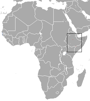 Somali Dwarf Shrew (Crocidura nana) range